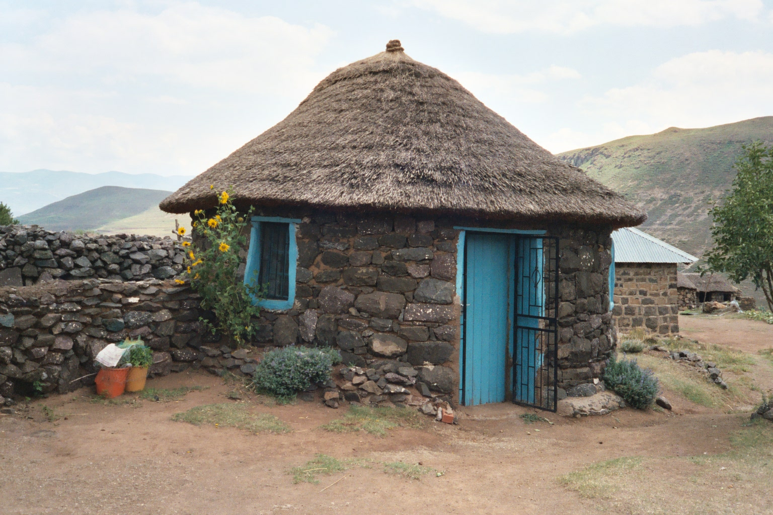 This rondavel is maintained well but does not have the outside painted or finished with a decorative finish. This picture was taken by Rich Tracy in a rural village in Lesotho. No copyrights to this picture are reserved.